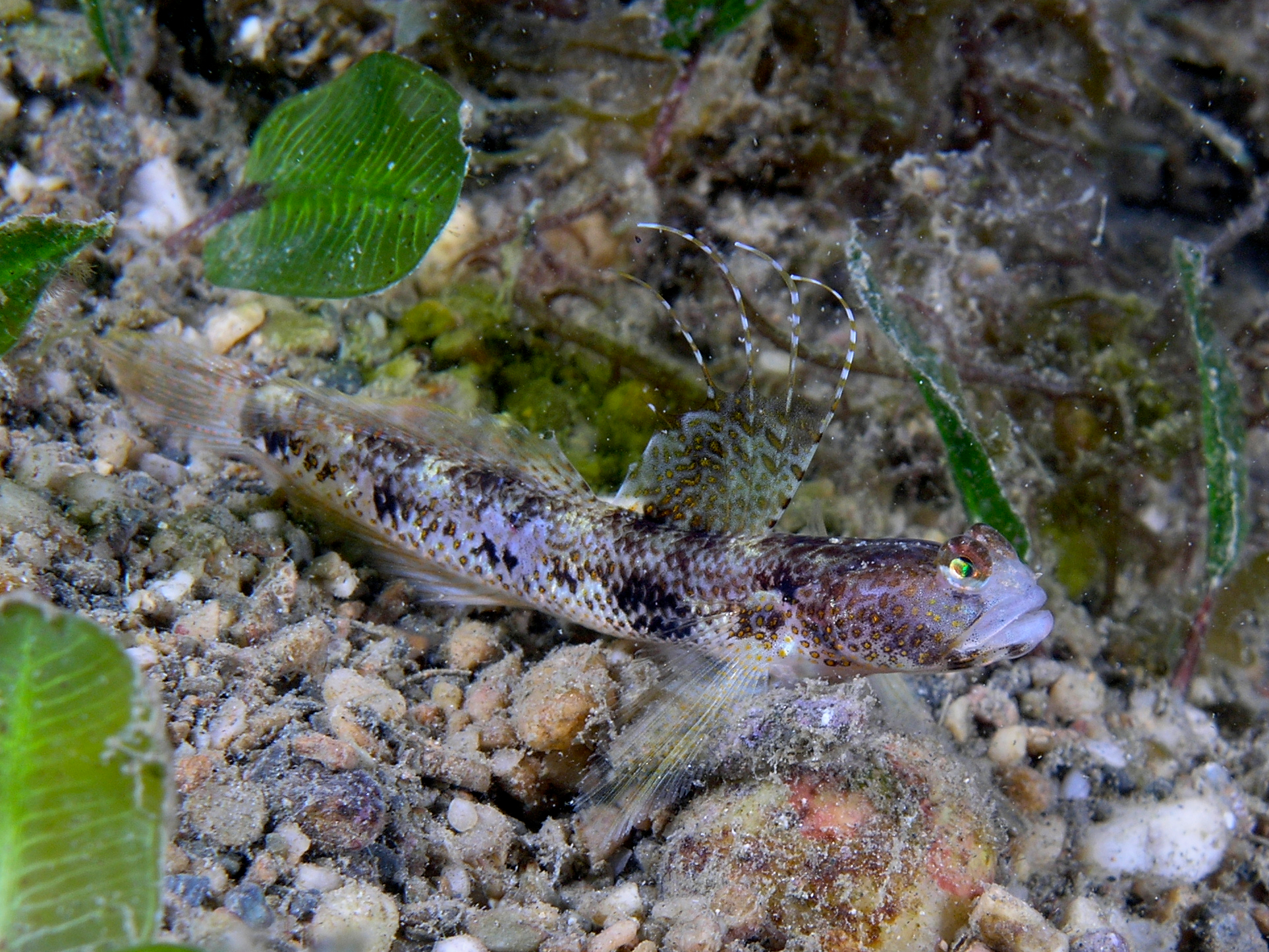 Ctenogobiops tangaroae (Masted shrimpgoby)